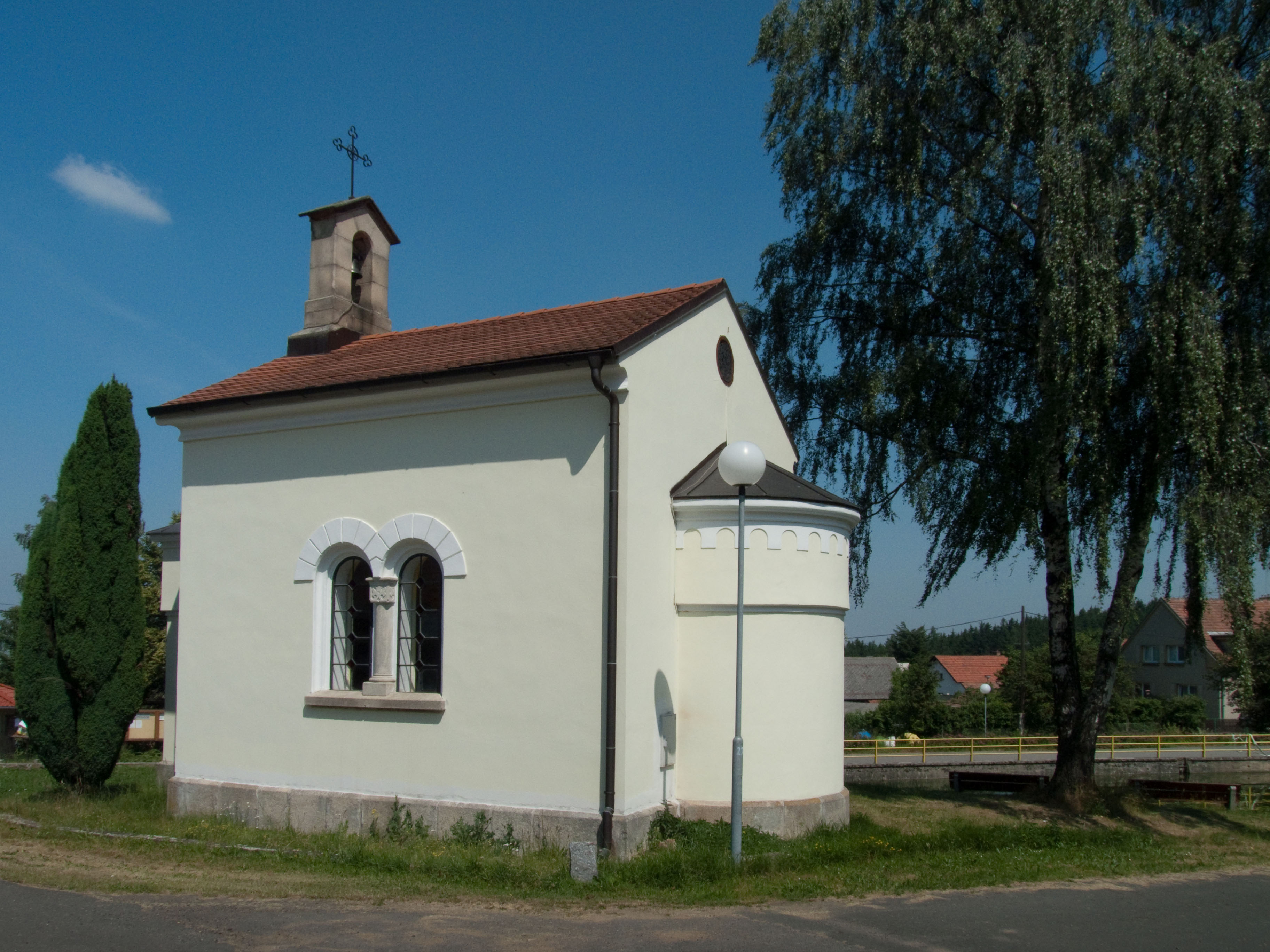 Feast of the Cross Chapel in the village of Řimovice, Benešov district, Czech Republic from 1872 as seen from the south-east